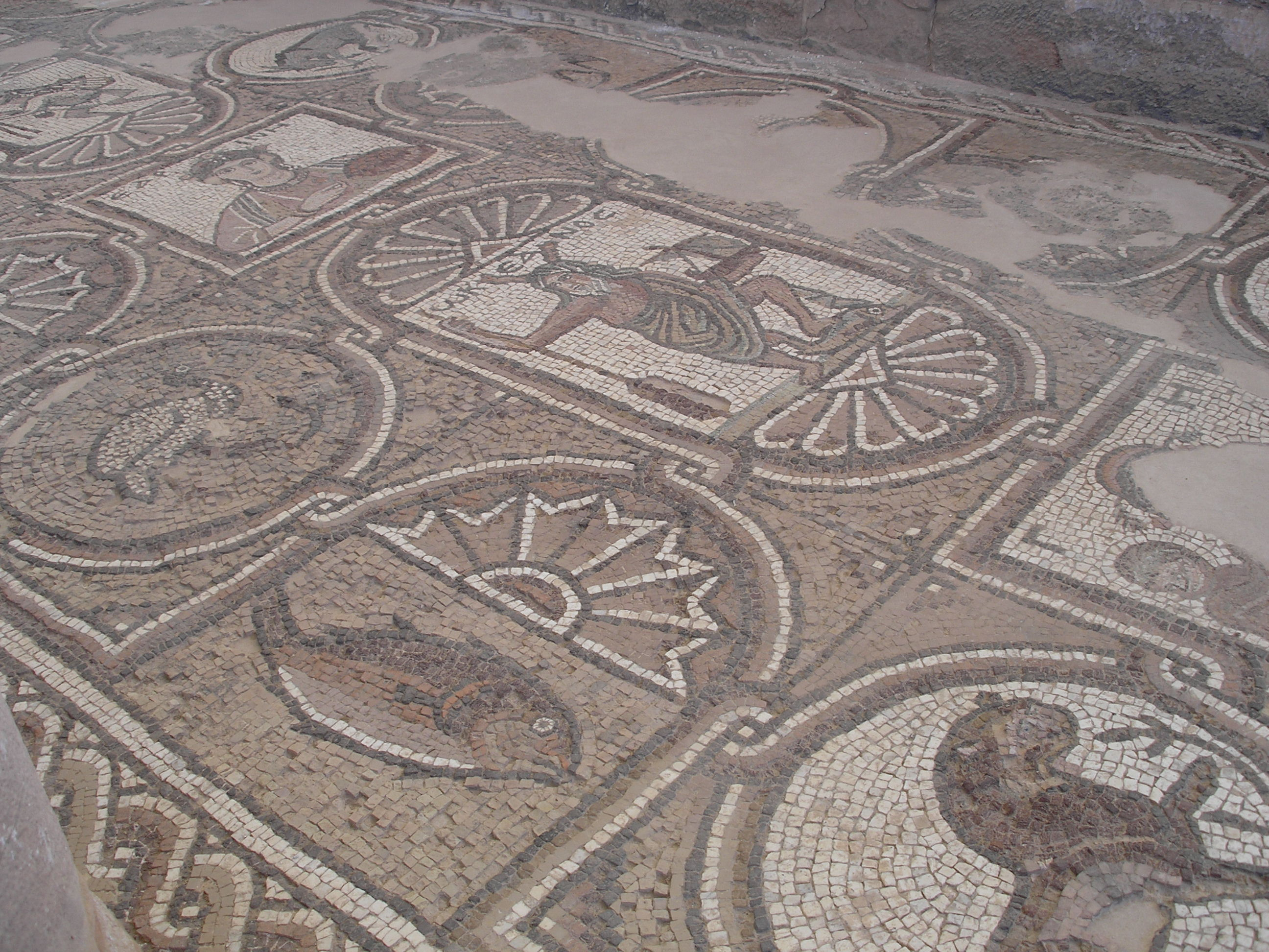 Mosaic Petra Church